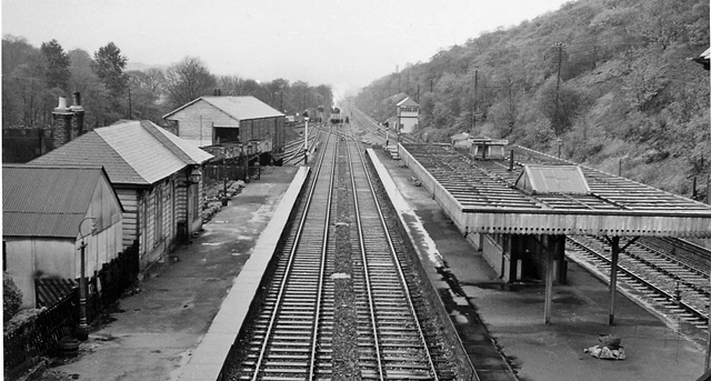 Beauchief Station. View NE, towards Sheffield; London (St Pancras), Derby etc. - Sheffield etc. Midland Main Line. Station closed 2/1/61 - about three months earlier, hence still intact.